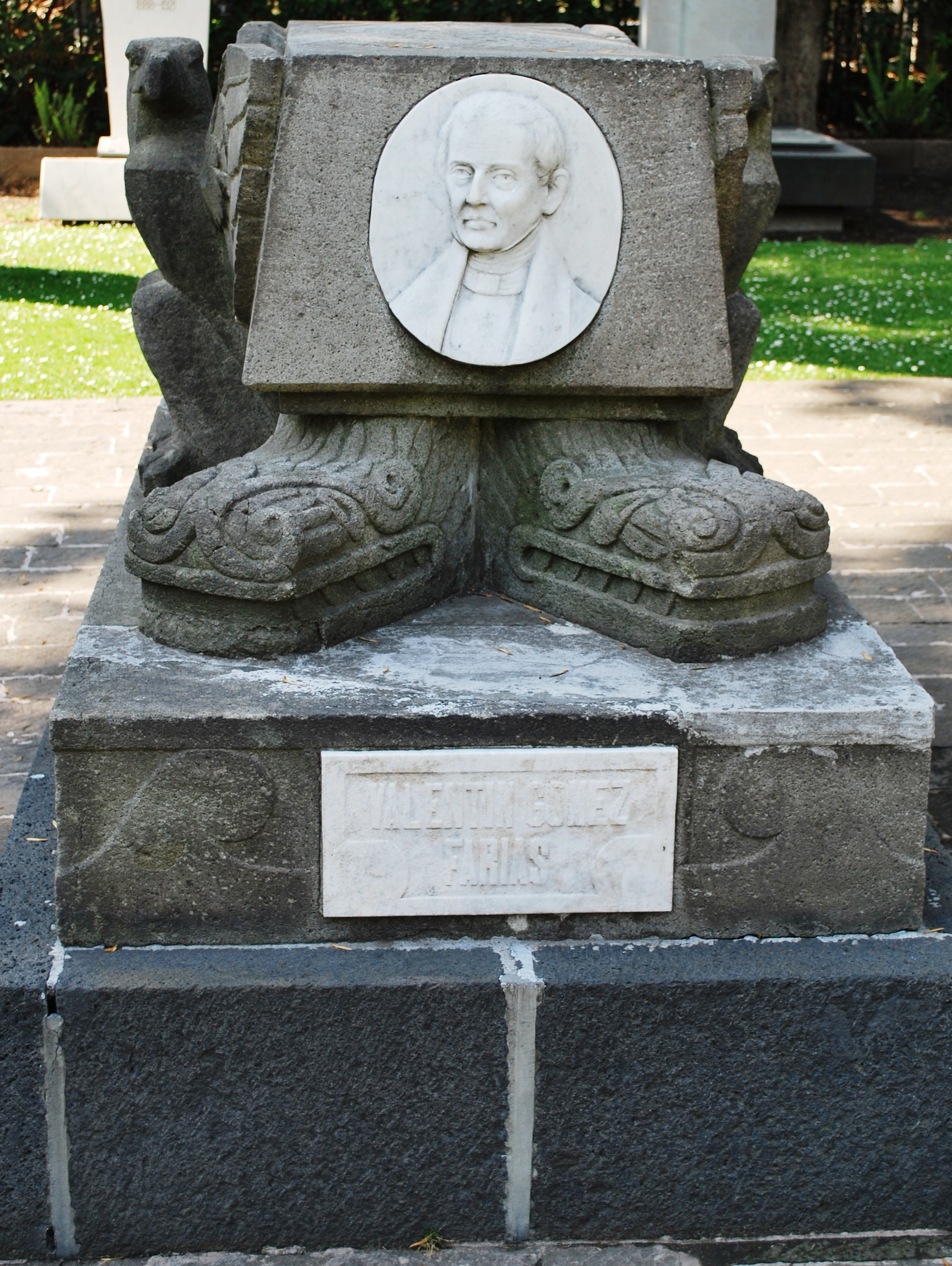 Tomb of President Valenting Gomez Farias in the Panteon Civil de Dolores in Mexico City